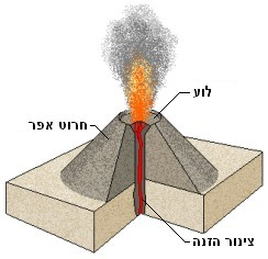 Volcanic Crater Heb